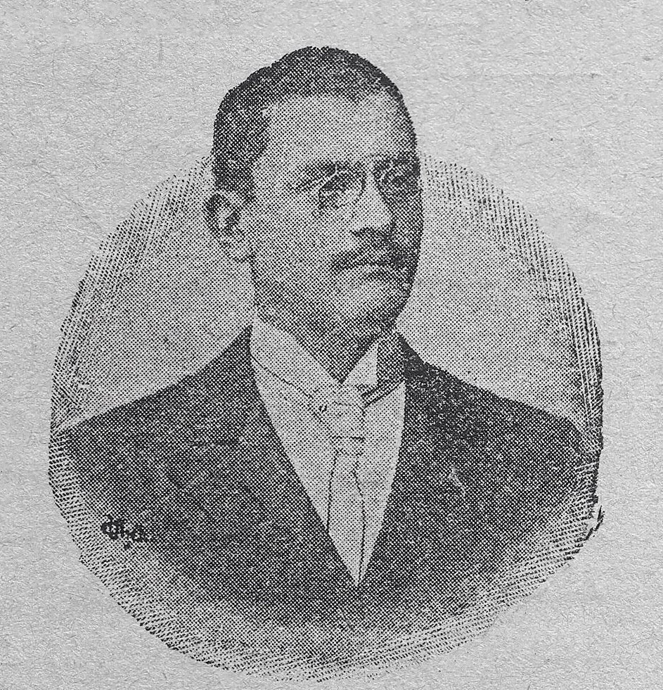 Milan Budisavljević (1874-1928), Serbian writer, professor and translator. Taken from Istorija srpske književnosti (1906) by Jovan Grčić. Srpski (latinica): Milan Budisavljević (1874 -1928), srpski književnik, profesor i prevodilac. Preuzeto iz Istorije srpske književnosti (1906) Jovana Grčića.